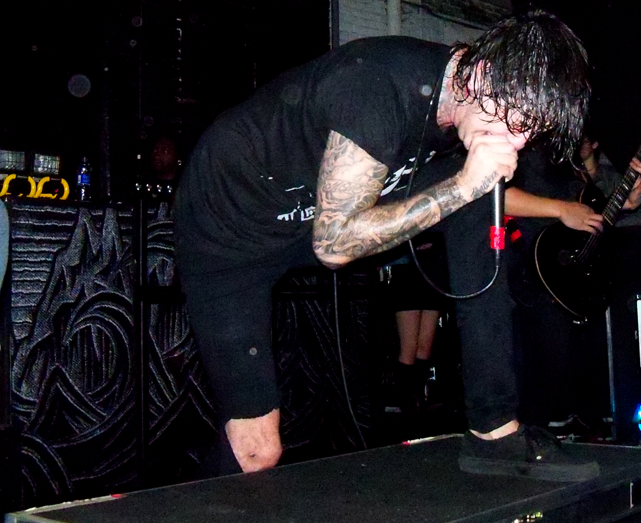 Of Mice & Men singer Austin Carlile performing in 2011